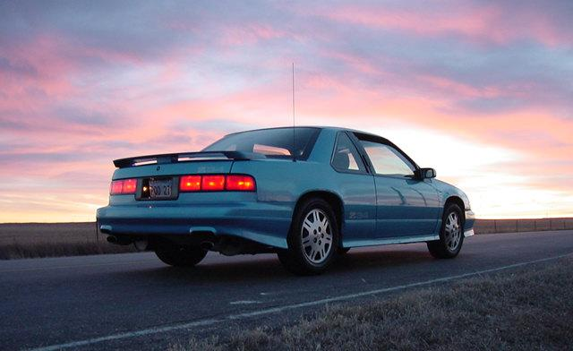 Lumina Z34